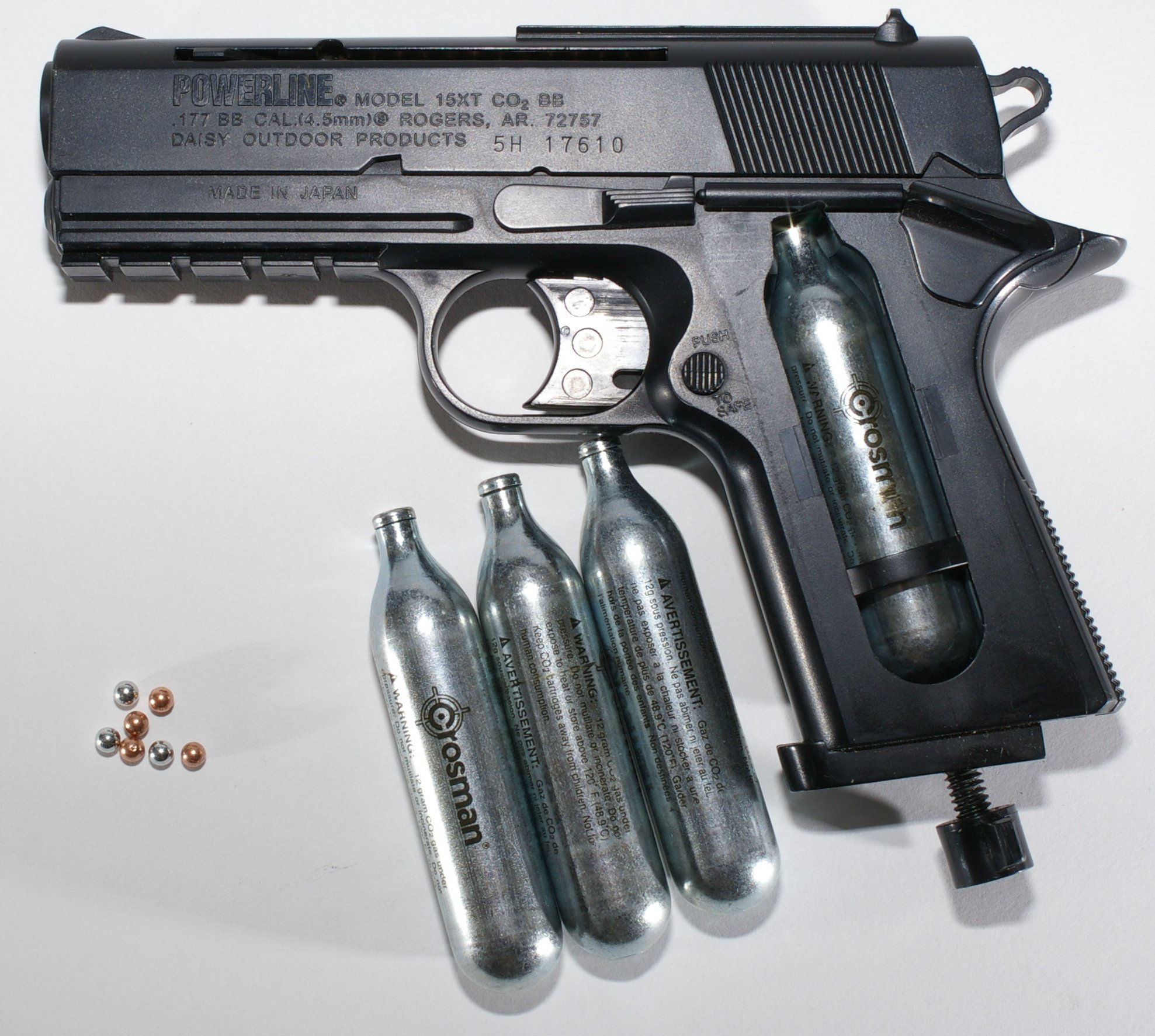 BB Pistol with CO2 cartridges and BBs. This pistol can shoot at up to 480 feet per second. The cover on the grip is removed to show the CO2 powerlet in the handle. The gap along the barrel is the magazine, which holds 15 BBs.